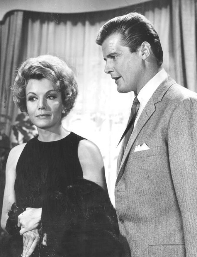 Photo of Joanna Barnes and Roger Moore from the television program The Trials of O'Brien.